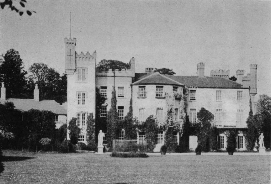 Castle Bellingham, Co. Louth, as appears in the autobiography of Evelyn Wrench, 1920